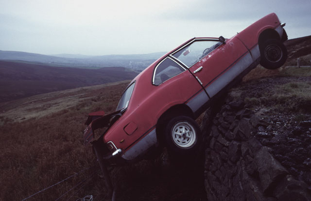 A57 - A dangerous road. A MkIII Cortina after leaving the Snake Pass, one of the roads traversing the Pennines in the United Kingdom.